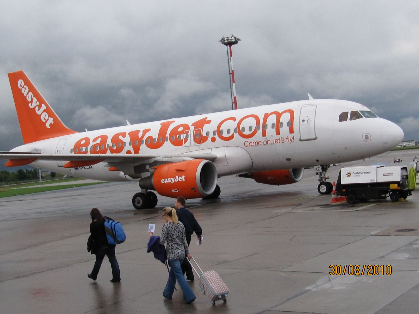 airplane